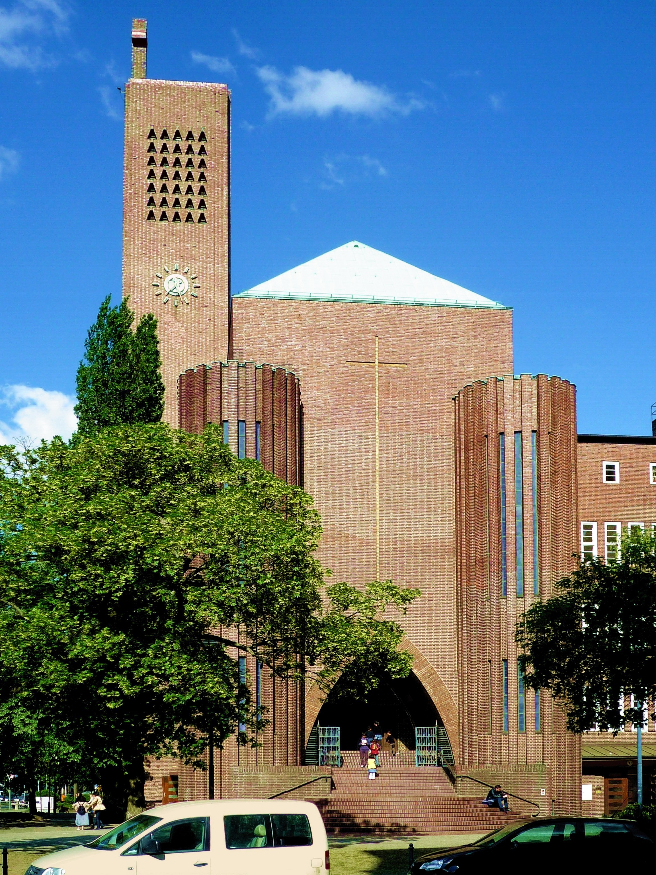 Church at Hohenzollernplatz in Berlin-Wilmersdorf. Erected 1930-1934. Architect: Fritz Höger.